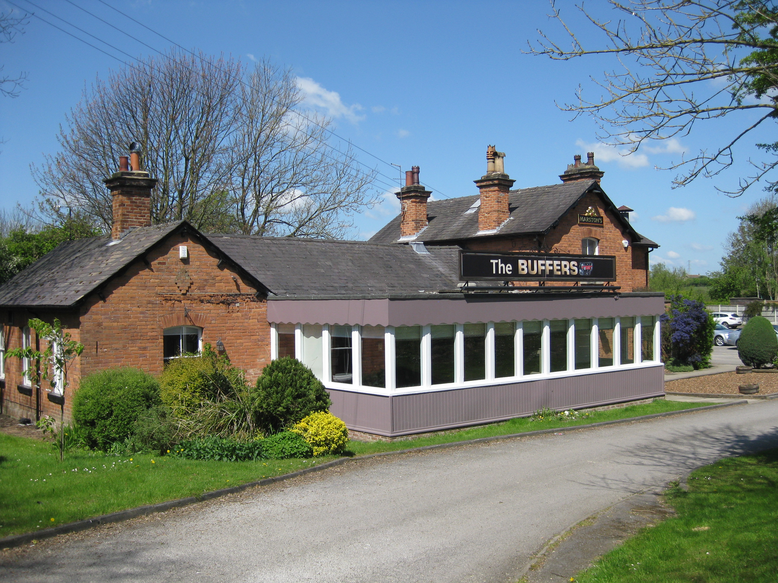 The Buffers, Rakehill Road, Scholes, Leeds LS15 4AL. Pub and restaurant in former Scholes Station. Marston's.